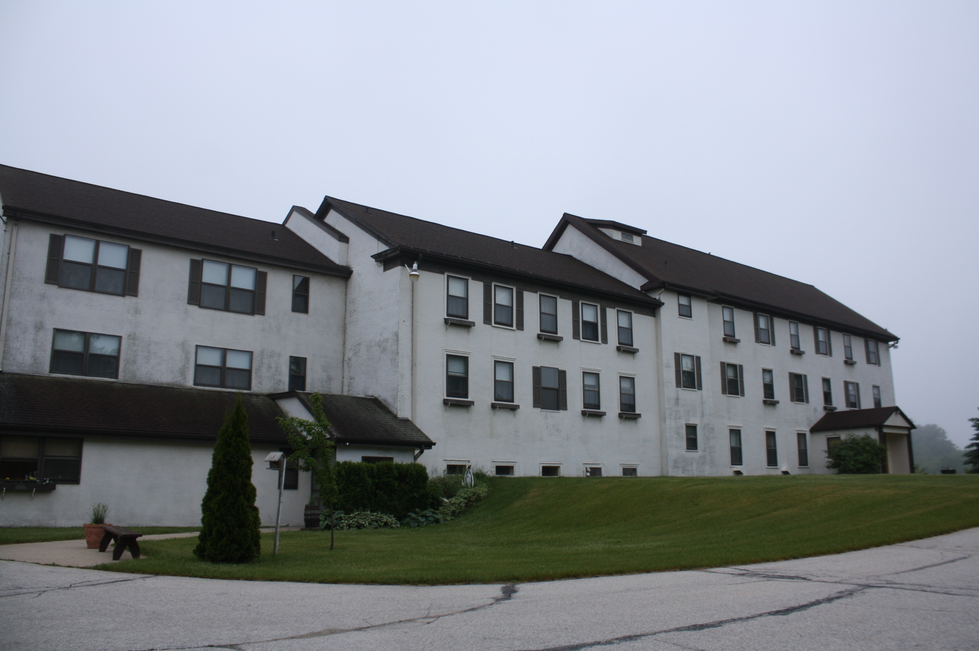 The former St. Mary's Convent (now Maria Haus but For Sale) in St. Nazianz, Wisconsin. It is listed on the National Register of Historic Places.